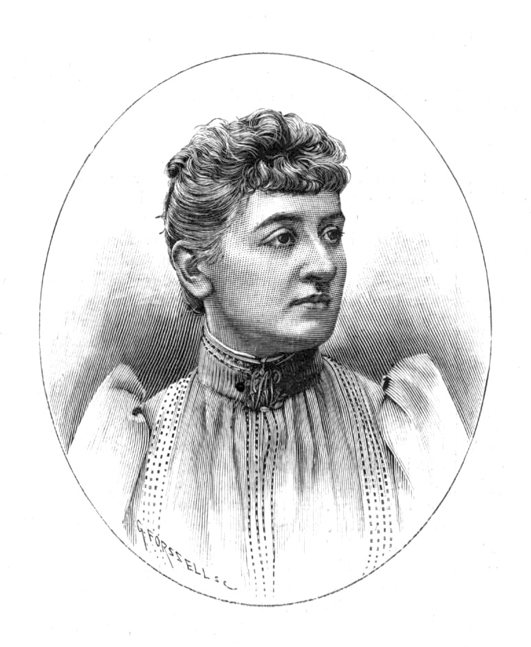 Swedish singer Vendela Andersson-Sörensen, image from Idun Magazine, 24 February 1893.